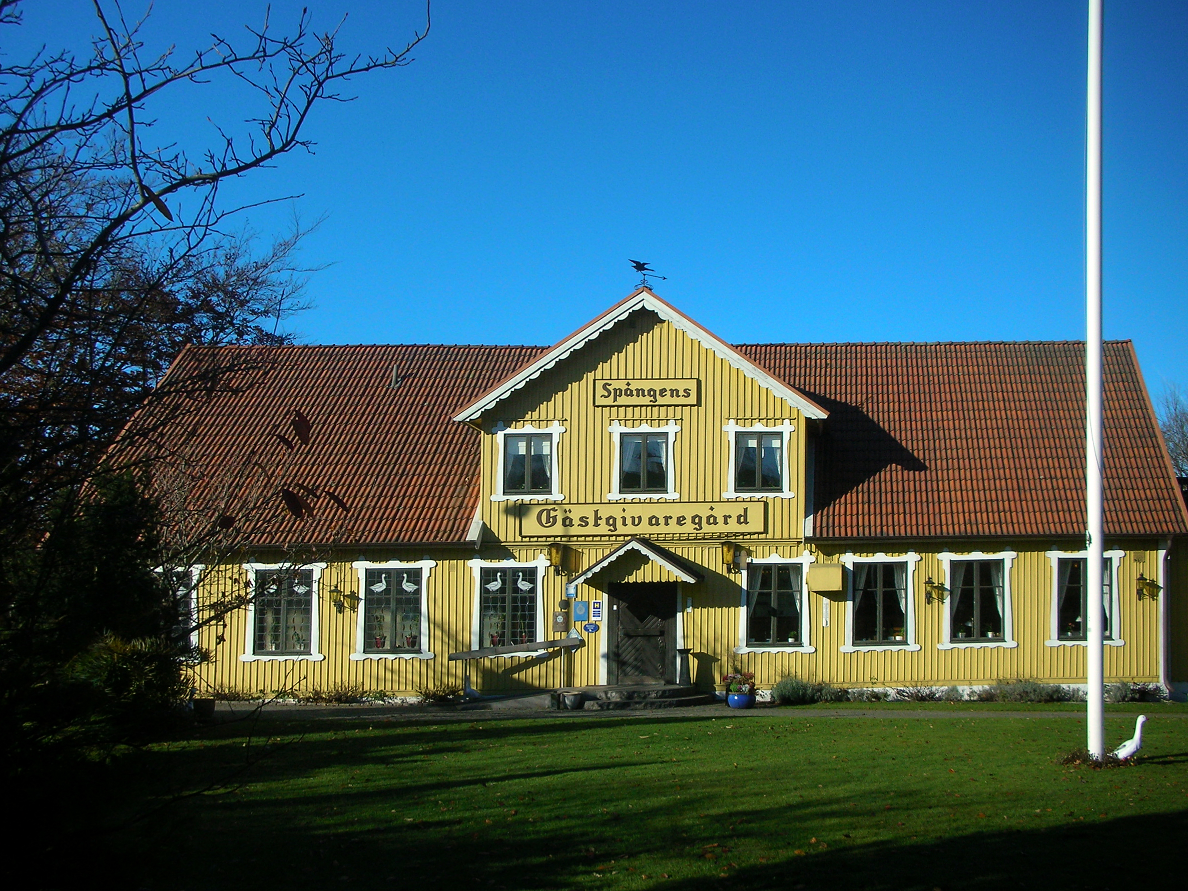 Spångens Gästgivaregård, an inn in central Scania, Sweden. The establishment was the scene for the 1939 movie Kalle på Spången with famous Swedish actor Edvard Persson in the lead roll.